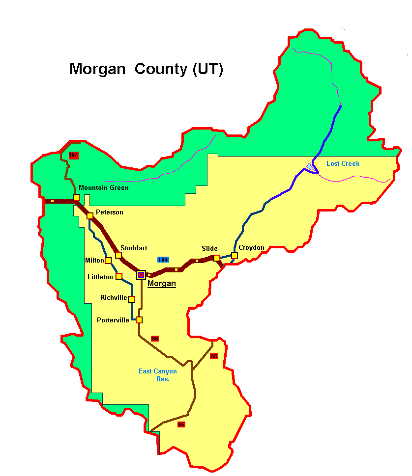 Morgan County (UT) details